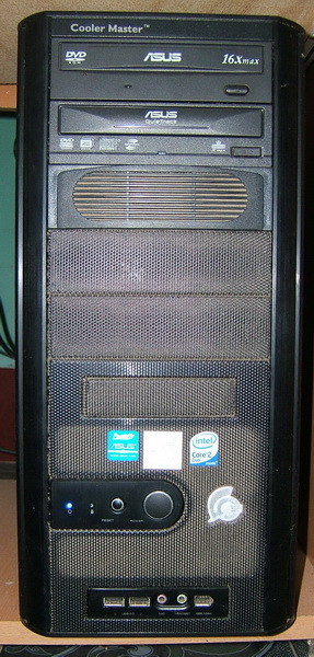 Cooler Master computer case.